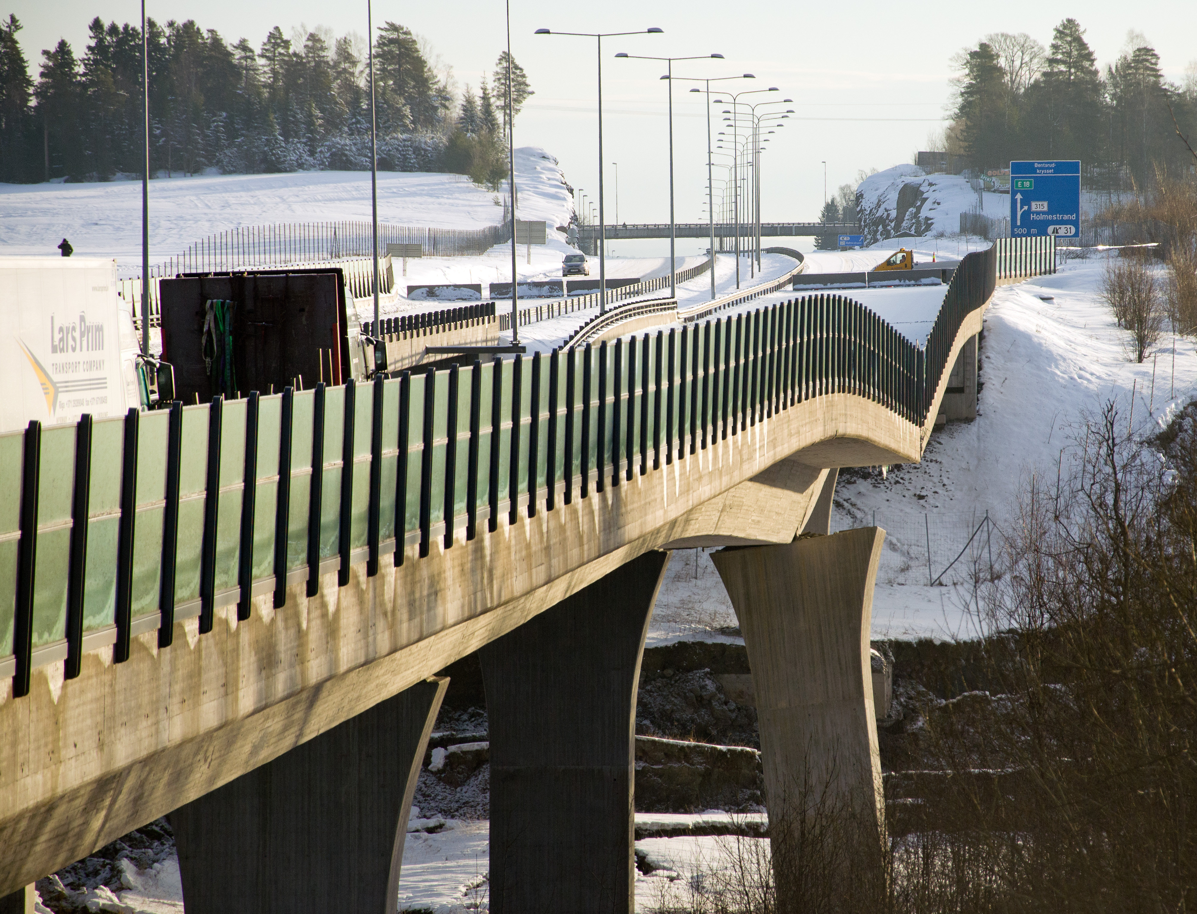 The Skjeggestad Bridge (a.k.a. Mofjellbekken bridge) on the national highway E18 in Holmestrand, Vestfold, Norway after its collapse on february 2nd, 2015.